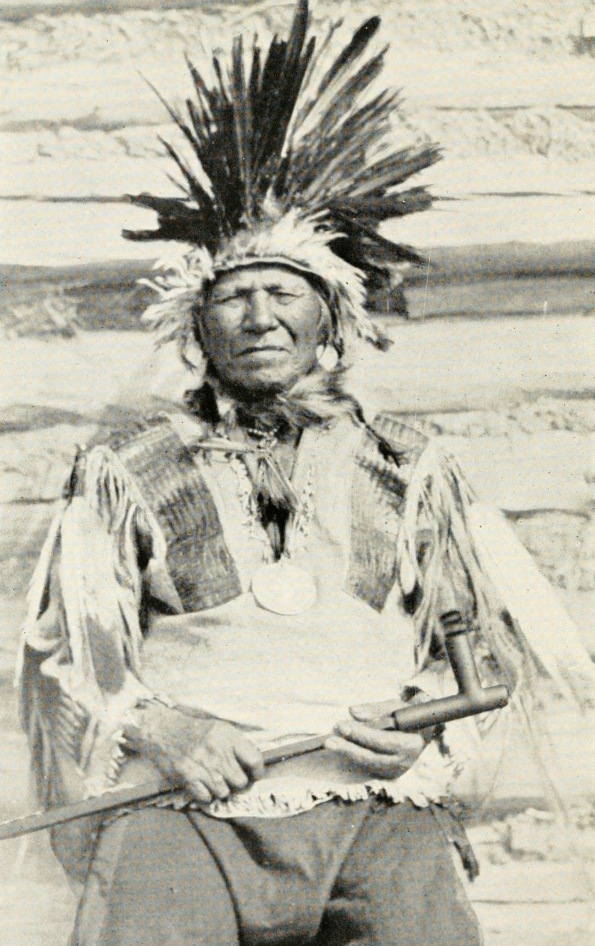 Soldier (ca. 1831-?) served as Indian scout in the U.S. Army in the 1860s and 1870s